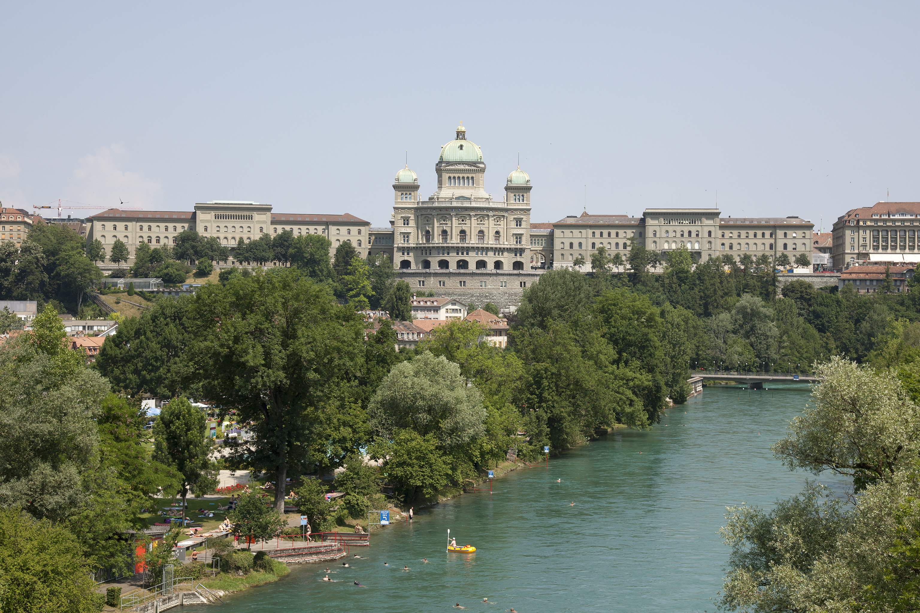 The Federal Palace of Switzerland, seen from south (Berne, Switzerland).